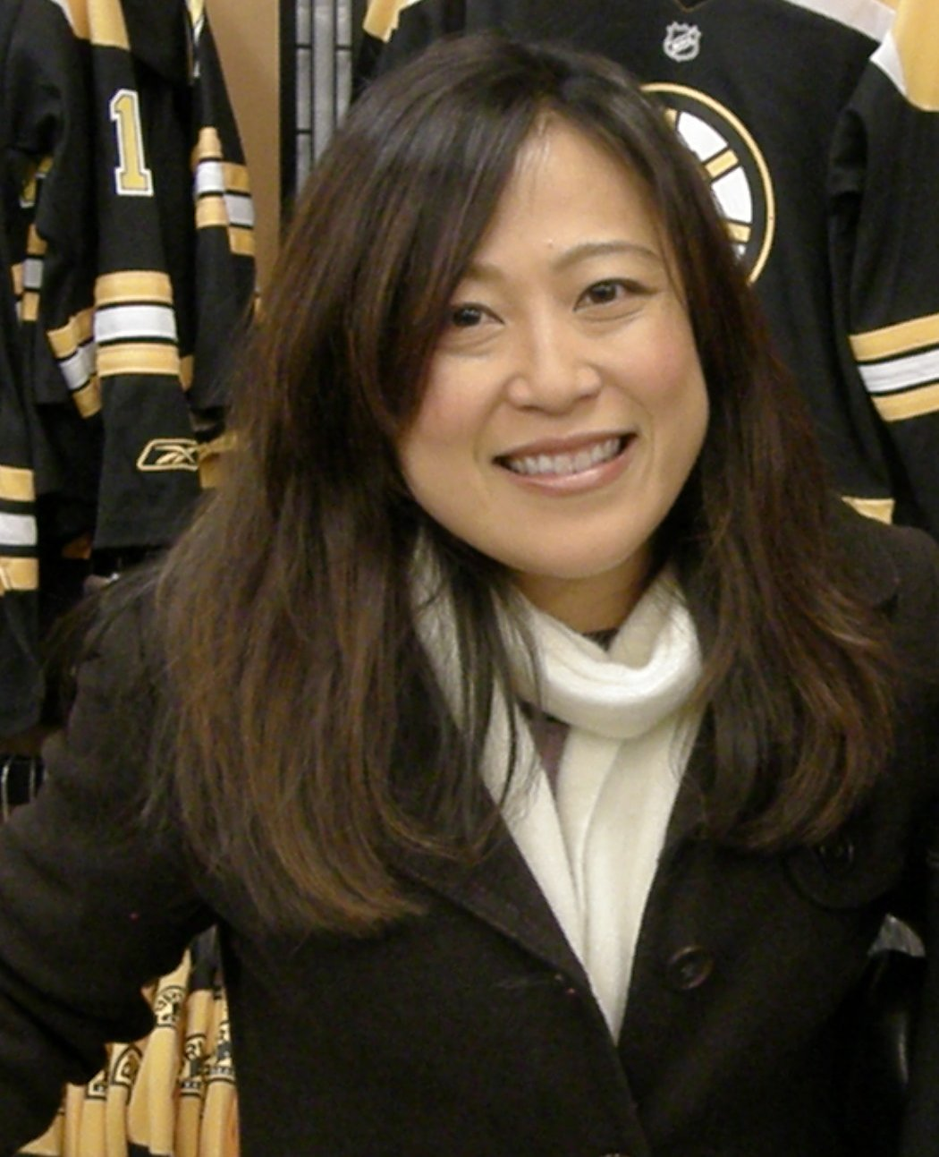 Naoko Funayama, of NESN's "The Buzz" Camera: Olympus SP560UZ License on Flickr (2011-01-08): CC-BY-2.0 Flickr tags: bruins, nhl, hockey, Naoko Funayama, dan4th, Boston Bruins, promotion, 3rd Jersey release